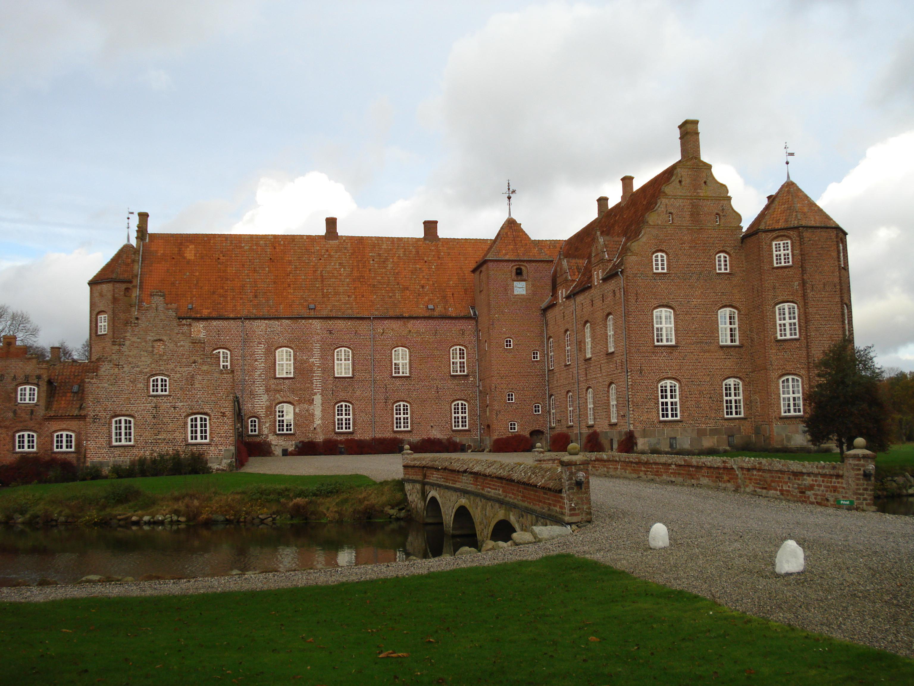 Katholm Estate at Norddjursland, Jutland, Denmark